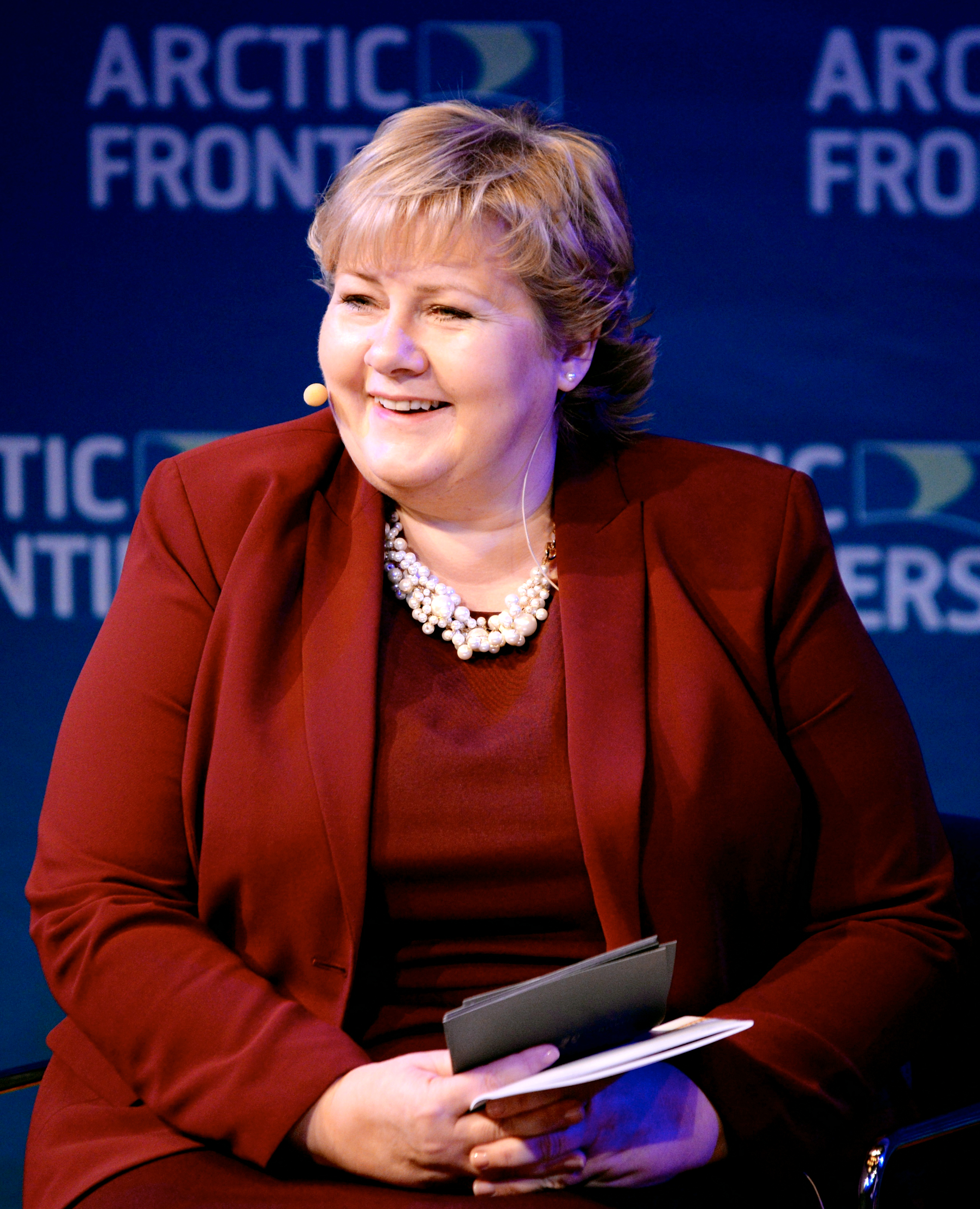 Norwegian Prime minister Erna Solberg at Arctic Frontiers 2015.